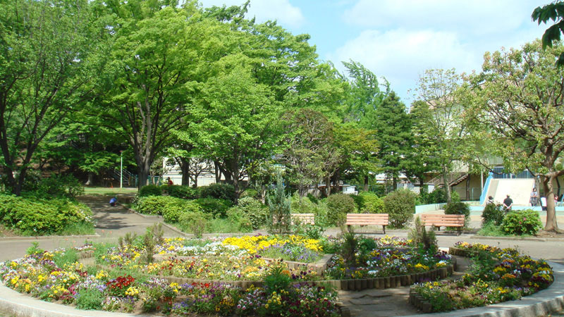 Tsurukawa-CenterPark at Tsurukawa, Machida, TOKYO